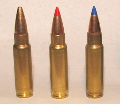 Author: Metroplex Civilian legal 5.7x28 FN cartridge lineup. Left to right: SS195LF, SS196SR, SS197SR // This Version without lighter as measure for dimensions